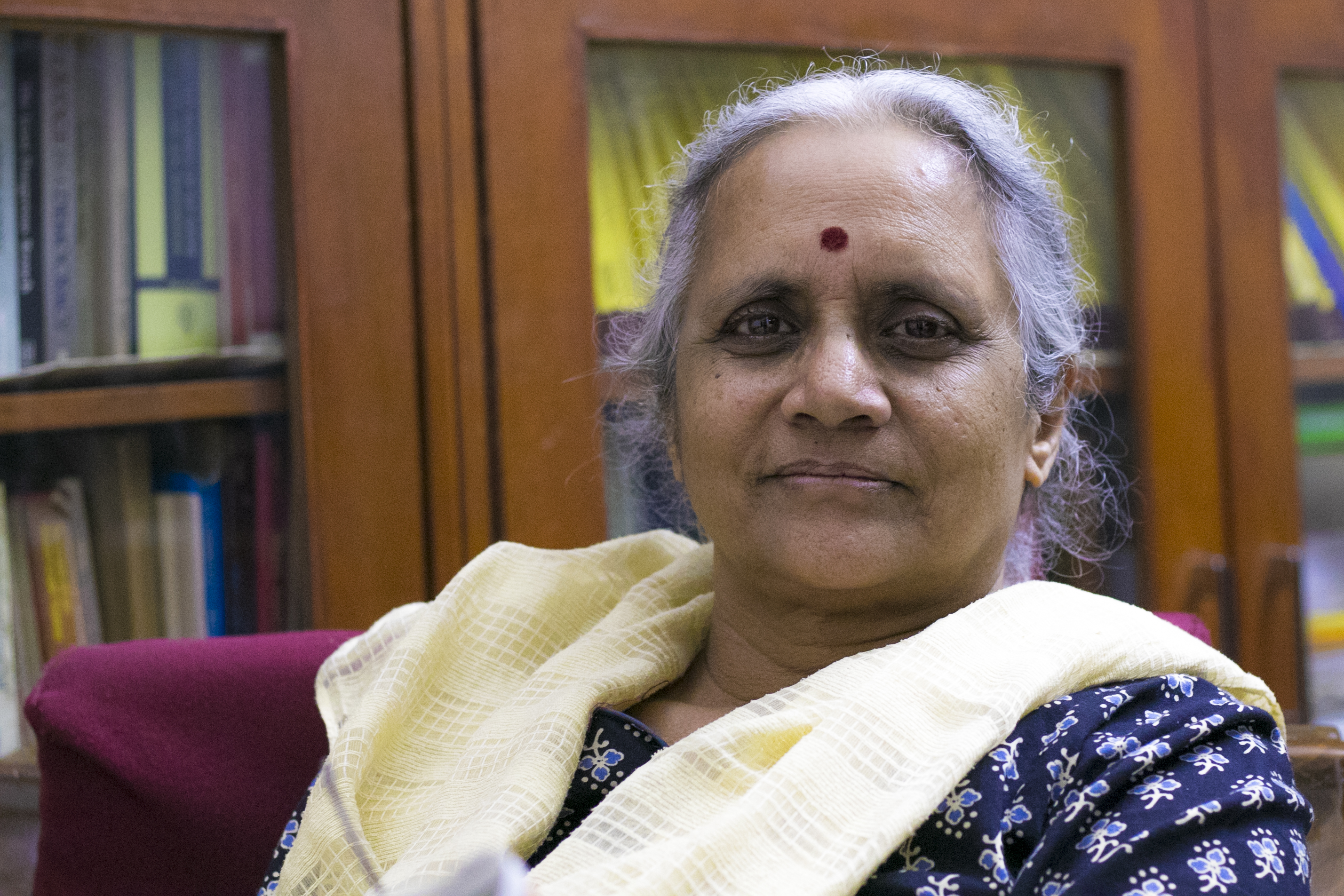 Usha Ramanathan is an Indian human rights activist and lawyer.